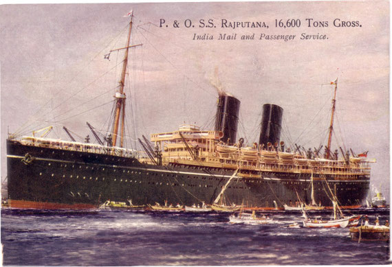 S. S. Rajputana